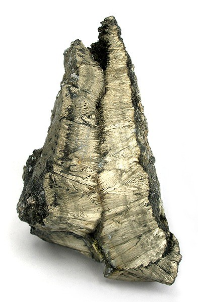 Millerite Locality: Perseverance Mine, Agnew, Leinster, Leonora Shire, Goldfields-Esperance region, Western Australia, Australia (Locality at ) Size: 13.4 x 7.5 x 6.0 cm. A huge specimen of lamellar growth millerite forming in layers at this classic and now defunct nickel mine. The millerite completely filled cracks in the rock to form thick layers of parallel-grown acicular crystals. It is very bright and golden-colored, and totally unique for millerite occurrences. I have not seen such a large piece out there in years. It weighs in at 2 pounds, or 835 grams! And, it’s completely crystallized all around.